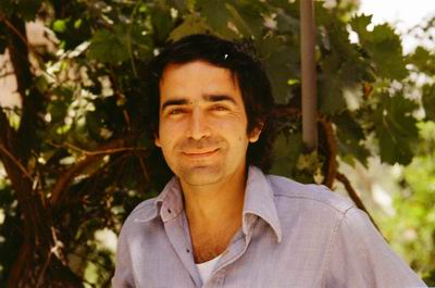 Photograph